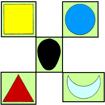 Tattwas.